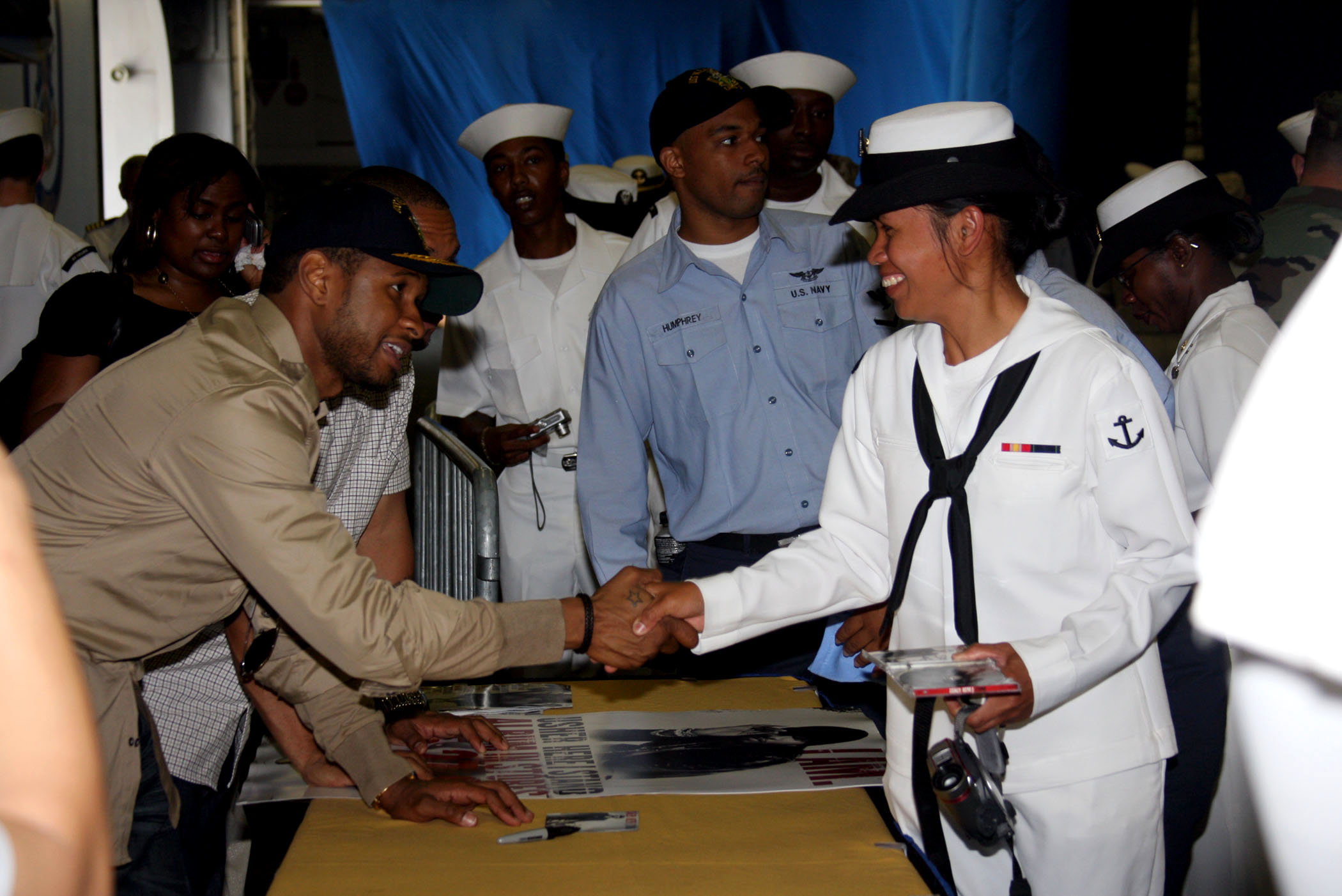 Hip-Hop and R&B singer Usher signs autographs for Sailors aboard the amphibious assault ship USS Kearsarge (LHD 3) during Fleet Week 2008 in New York.